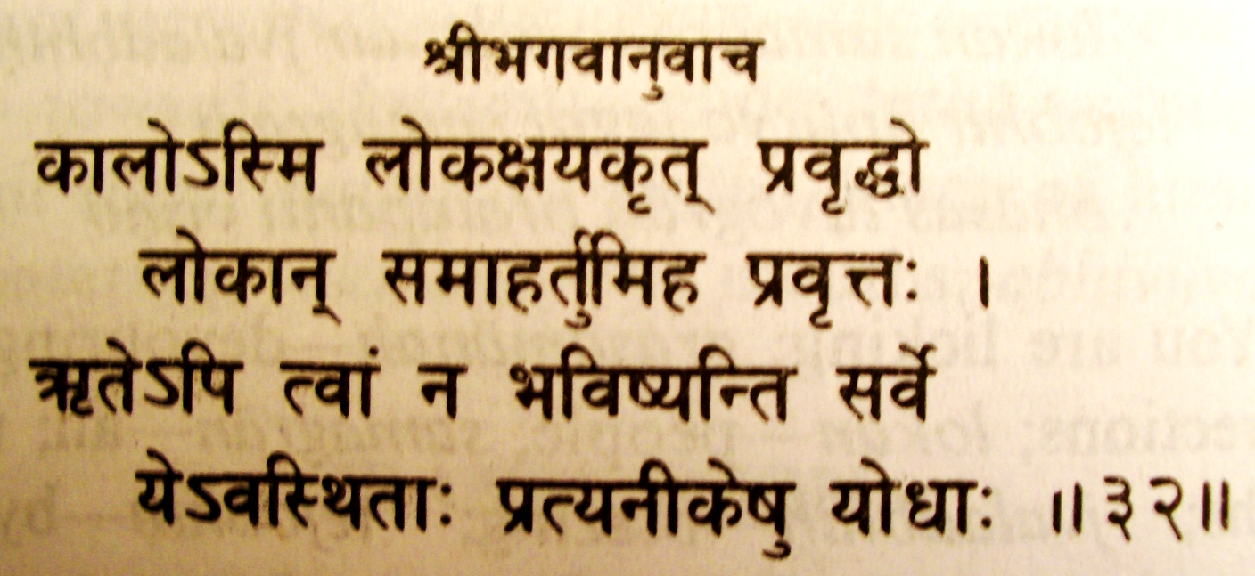 Gita Chapter 11:32 संस्कृतम्: श्रीभगवानुवाच कालोऽस्मि लोकक्षयकृत्प्रवृद्धो लोकान्समाहर्तुमिह प्रवृत्त: ऋतेऽपि त्वां न भविष्यन्ति सर्वे येऽवस्थिता: प्रत्यनीकेषु योधा